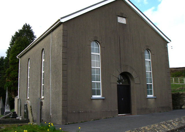 Capel Gwyn. Capel Gwyn. Translates as White Chapel - I think, esp. as it's approx 1km north of Whitemill.